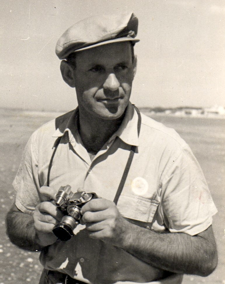 Tohotom Nagy in South America (1956)